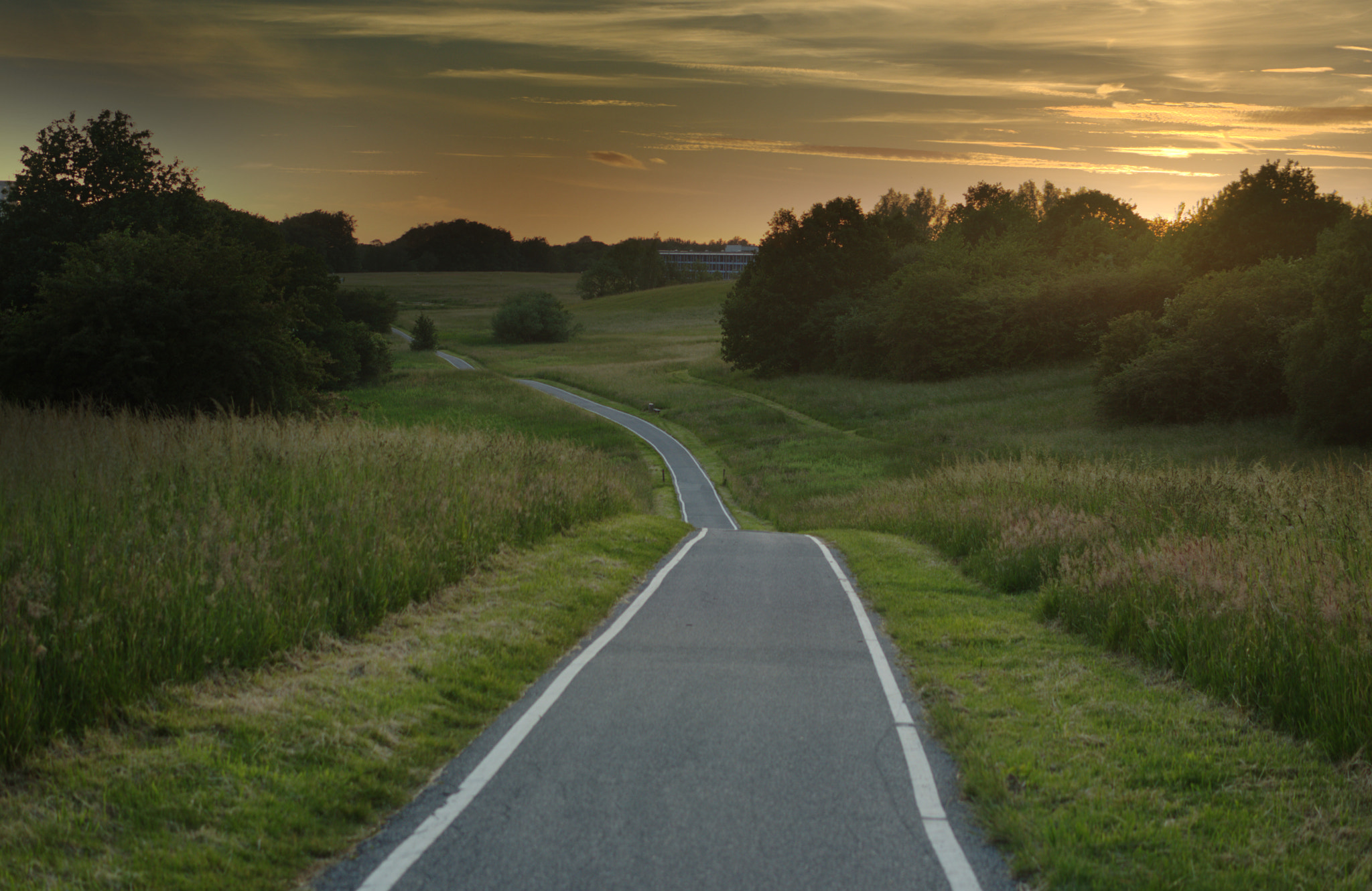 500px provided description: Høje Gladsaxe Have [#sky ,#landscape ,#nature ,#travel ,#guidance ,#tree ,#highway ,#road ,#grass ,#asphalt ,#countryside ,#rural ,#outdoors ,#no person]